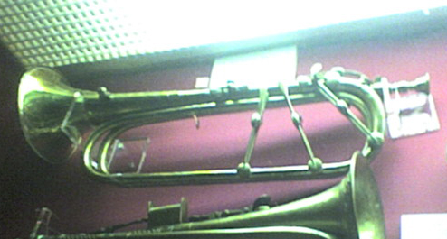 Photograph of keyed Trumpet taken Spring 2009 at Reid Concert Hall Museum of Instruments (Musical Instrument Museums Edinburgh)